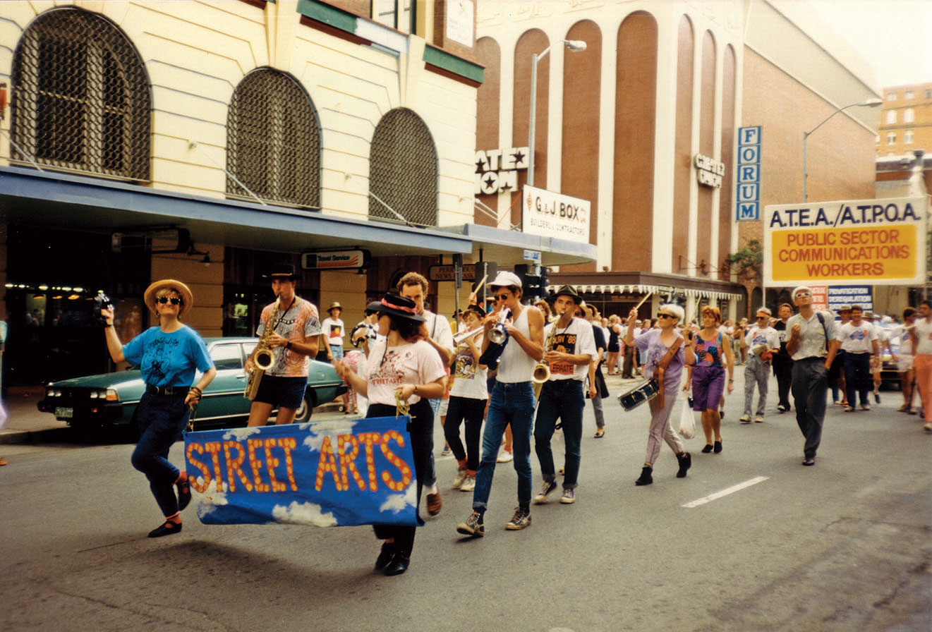 Street arts members participating in a May Day March 1988, photographer unknown, from the LHMU Queensland collection, owned by Robert Whyte, ToadShow. From left Fiona Winning, Denis Peel playing Tenor saxophone, Katrina Devery, Derek Ives with cornet, Lisa Small on Trombone, Ceri McCoy playing Soprano saxophone, Chris Sleight playing Tenor Saxophone Meg Kanowski with drum, Pauline Peel, Gavan Fenelon, Alan (Fox) Rogers.